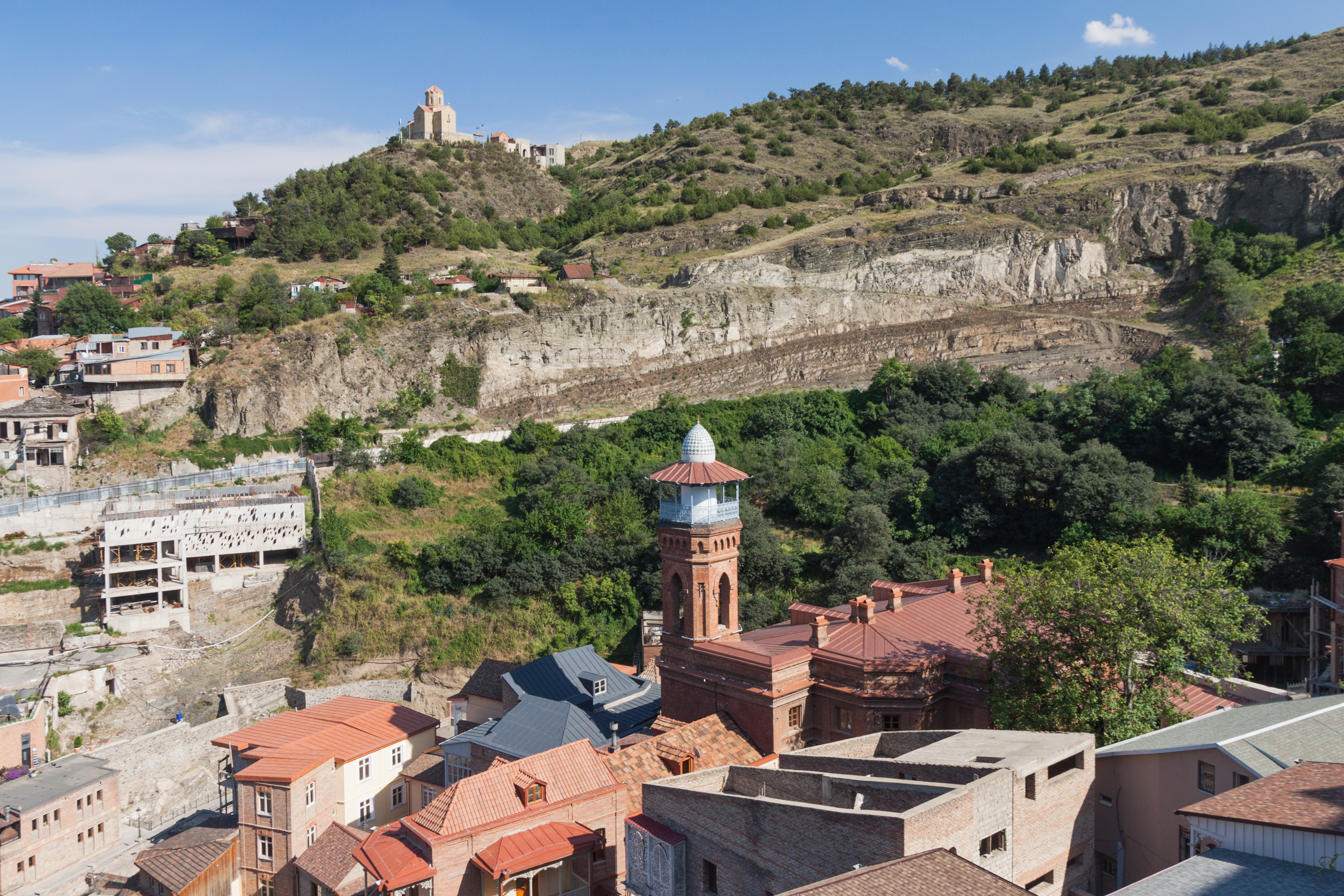 The views from the Narikala fortress - Abanotubani. Tbilisi, Georgia.